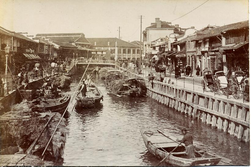 SuzhouCreek in 1910